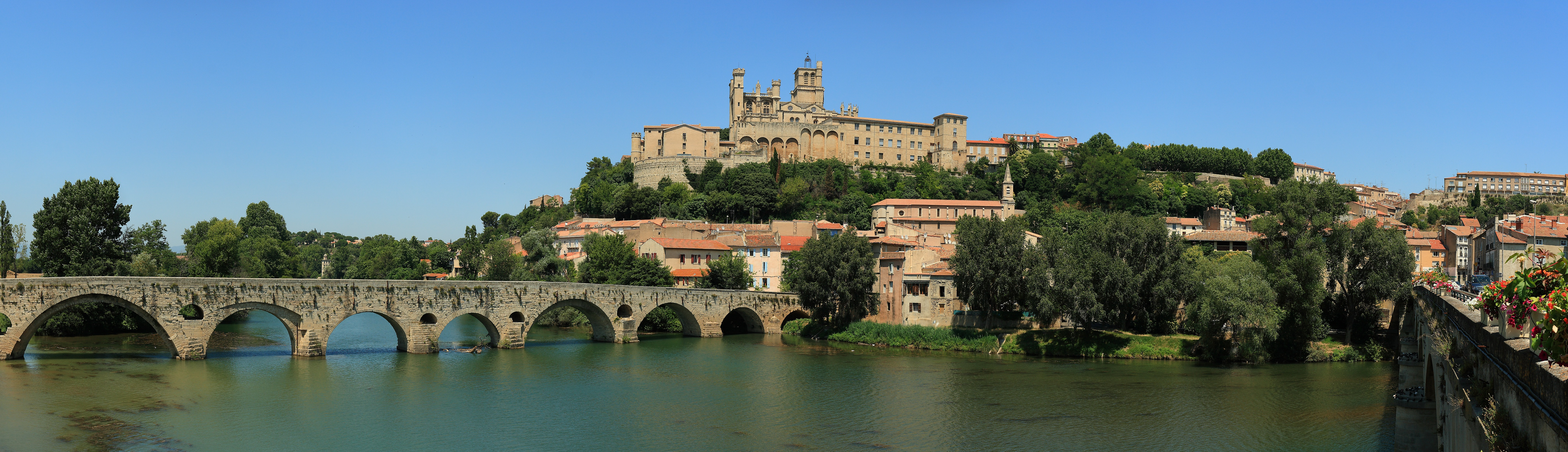 View of the cathedral of Béziers and of the old bridge over the Orb.